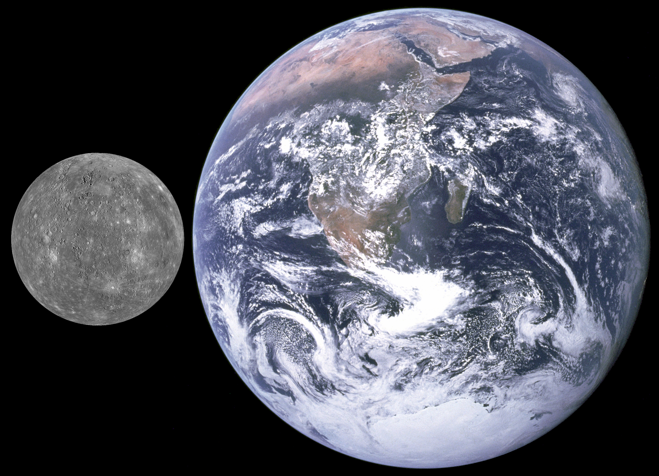 Size comparison of Mercury and Earth. Approximate scale is 29 km/px.